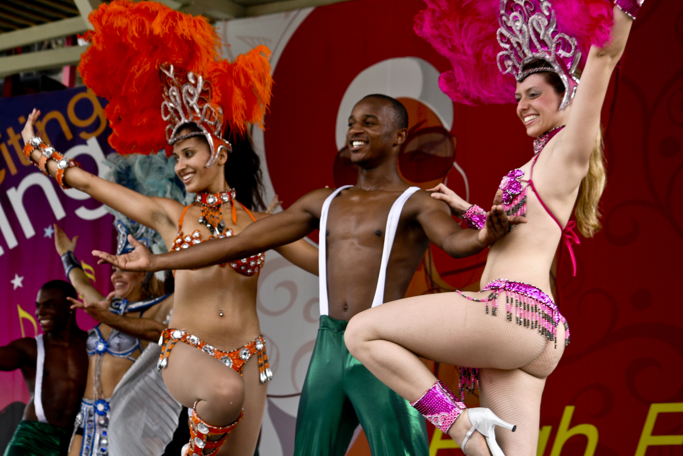 Spa Valley . Dancers from Brazil.jpg